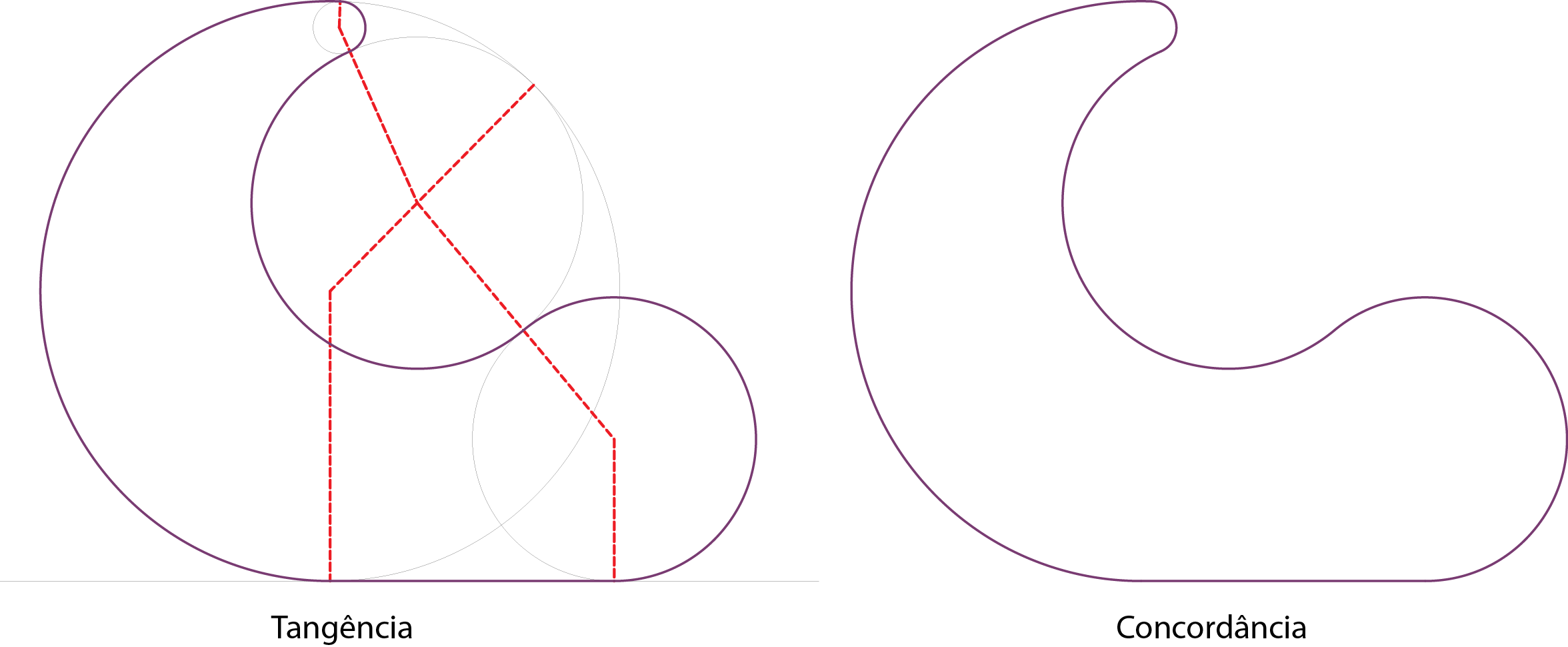 Tangency